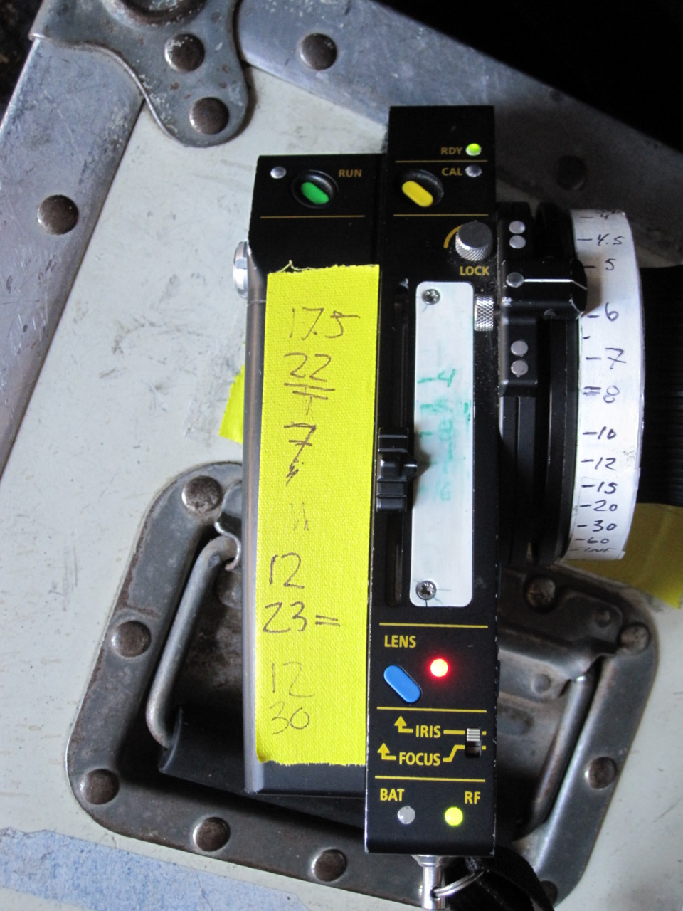 From the movie Love by William Eubank. A camera remote from Panavision presumably.